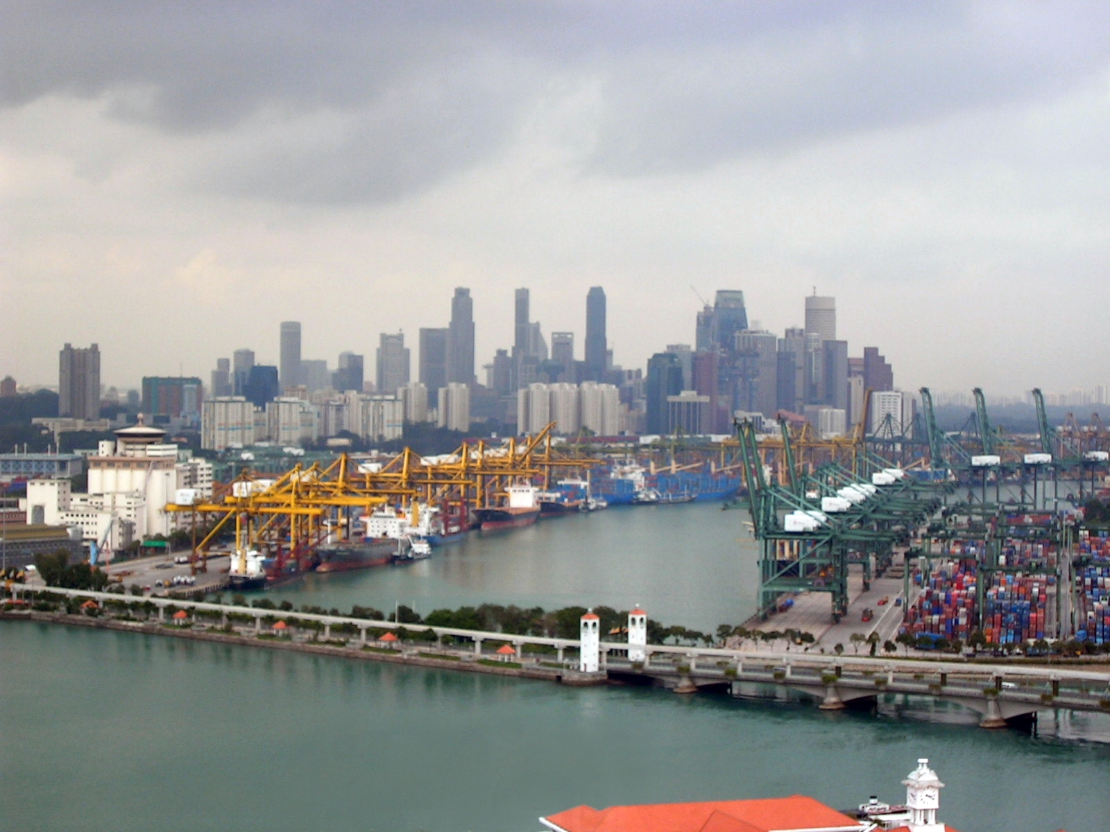 The Central Business District of Singapore and the Keppel Container Terminal from the Carlsberg Sky Tower (now the Tiger Sky Tower).